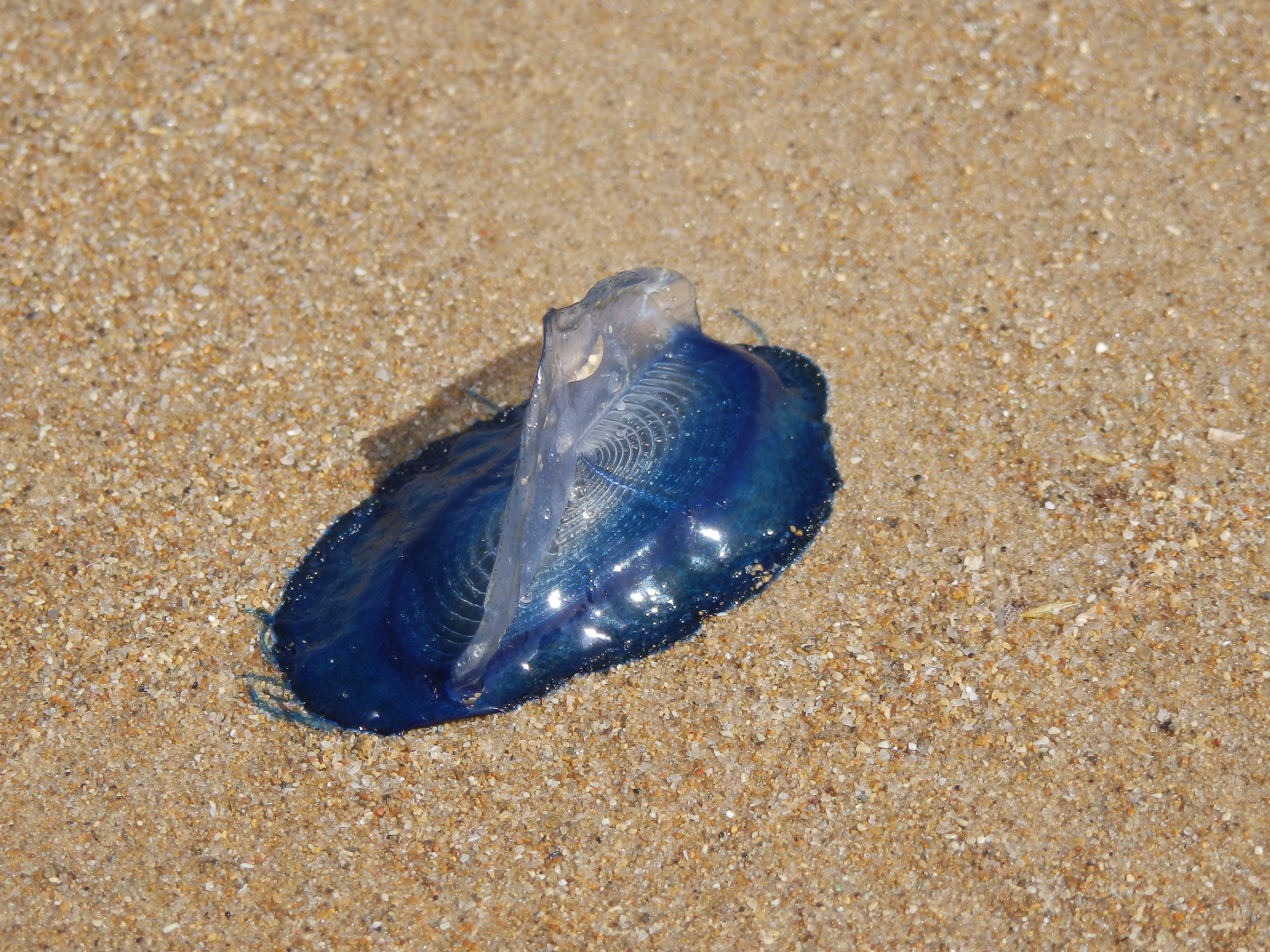 blue jellyfish on the beach